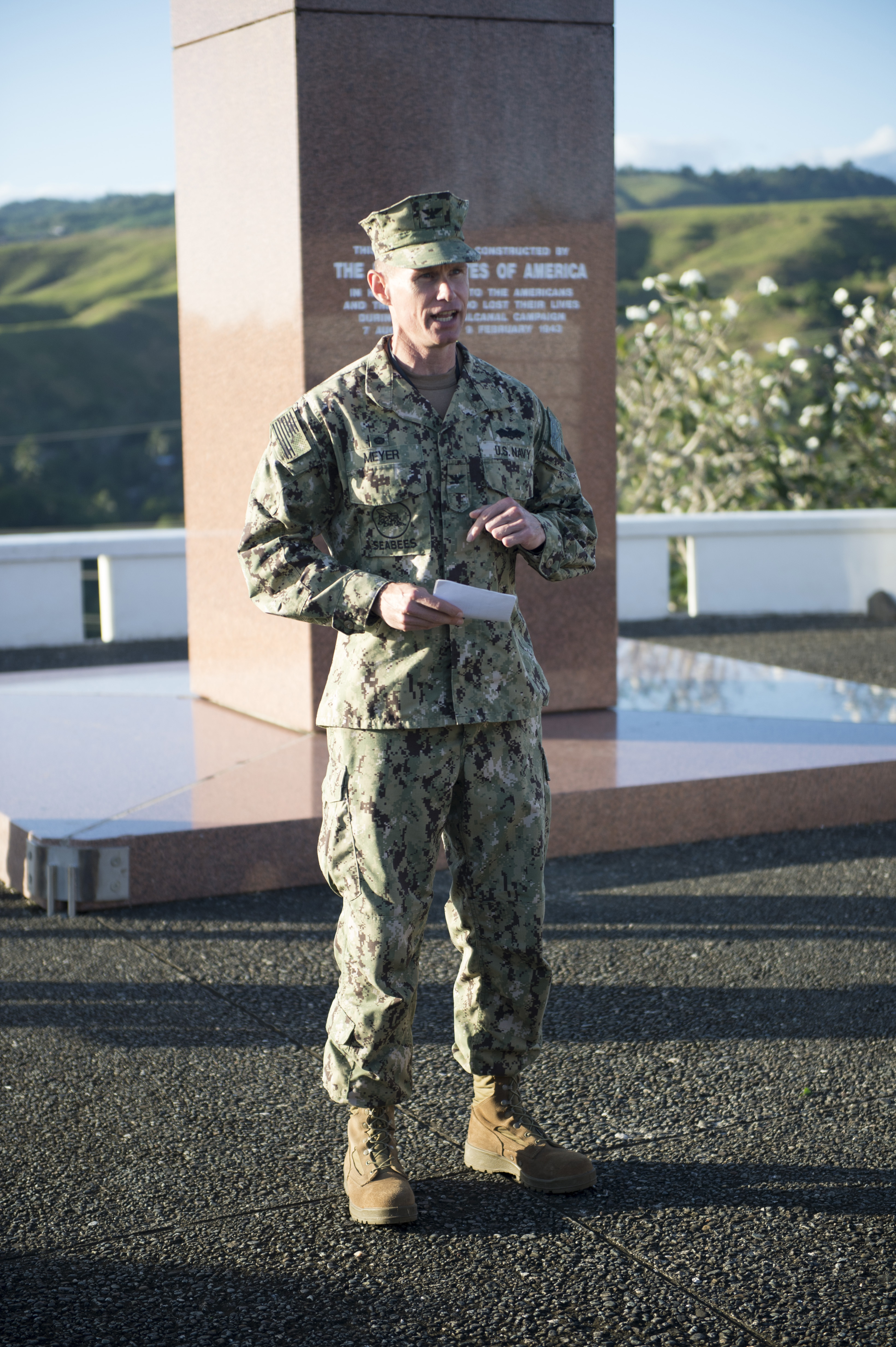 150721-N-MK341-019 HONIARA, Guadalcanal (July 21, 2015) - Commodore Task Force Forager, Capt. James Meyer, addresses service members assigned to Pacific Partnership 2015 during a wreath laying ceremony July 21. The ceremony honored those who fought in the Battle of Guadalcanal. Task Force Forager is embarked aboard the Military Sealift Command joint high speed vessel USNS Millinocket (JHSV 3). Millinocket is serving as the secondary platform for Pacific Partnership, led by an expeditionary command element from the Navy’s 30th Naval Construction Regiment (30 NCR) from Port Hueneme, Calif. Now in its 10th iteration, Pacific Partnership is the largest annual multilateral humanitarian assistance and disaster relief preparedness mission conducted in the Indo-Asia Pacific Region. While training for crisis conditions, Pacific Partnership, missions have provided medical care to approximately 270,000 patients and veterinary service to more than 38,000 animals. Additionally, Pacific Partnership has provided critical infrastructure development to host nations through the completion of more than 180 engineering products. (U.S. Navy photo by Mass Communication Specialist 1st Class Carla Burdt/Released) Unit: Navy Public Affairs Support Element West DVIDS Tags: Pacific Partnership; JHSV; Joint High Speed Vessel; USNS Millinocket; PP15